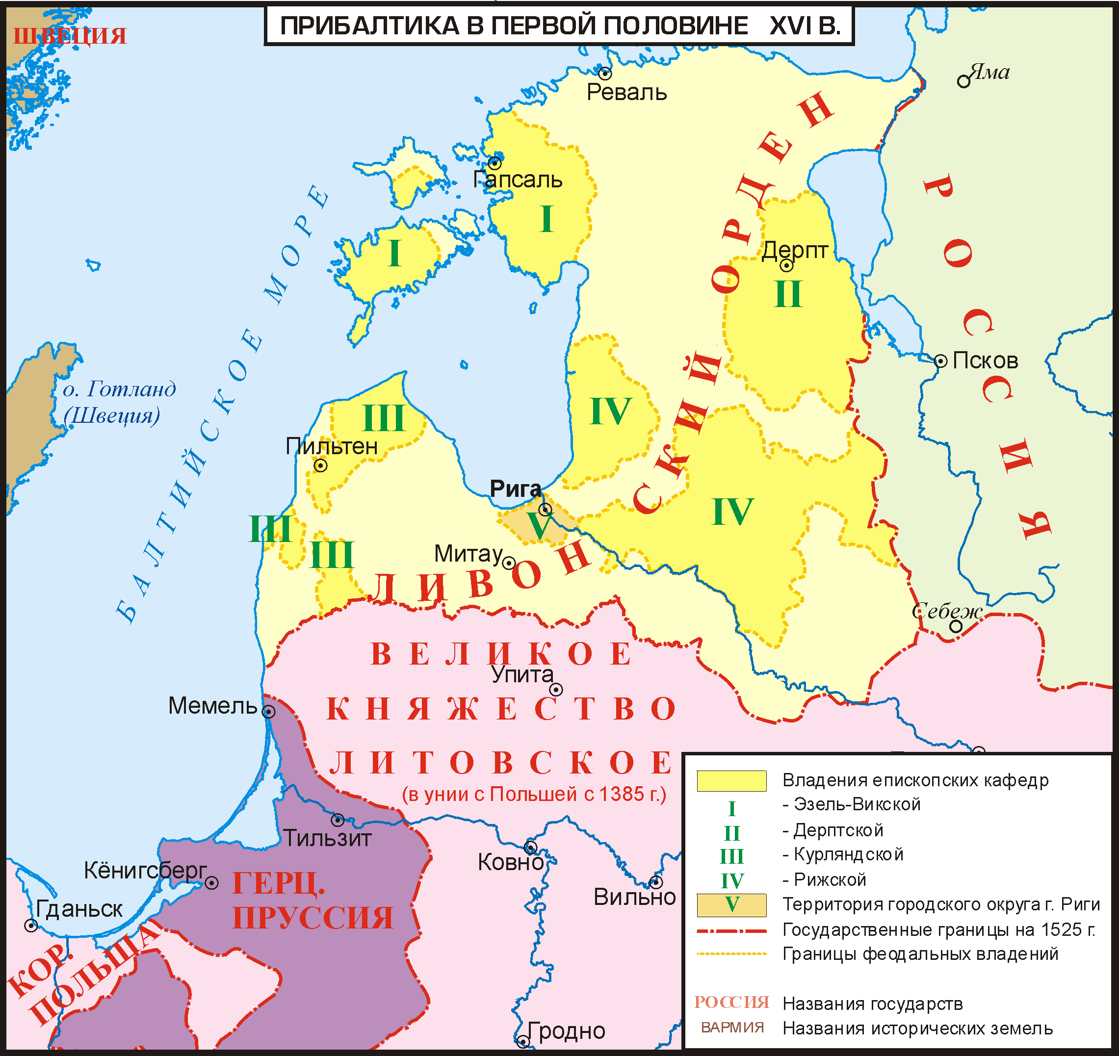 Baltics in 1525, not long before Livonian war.